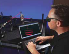 Dr. Harold “Sonny” White creates a microscopic warp bubble with the White–Juday warp-field interferometer.